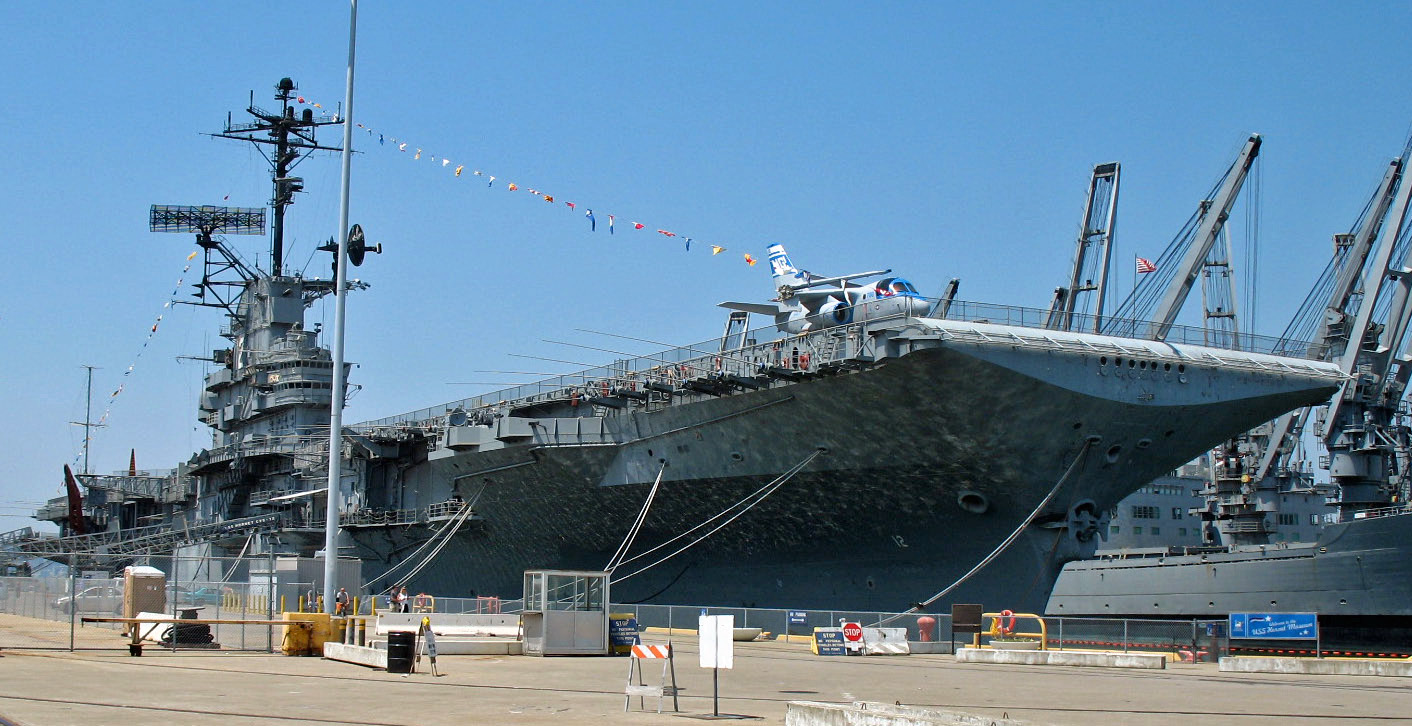 THe USS Hornet museum ship in Alameda, CA, seen from the west end of West Hornet Ave. at Ferry Point.